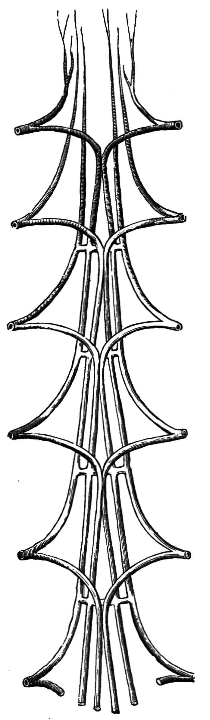 Tracheae of geophilus subterranus